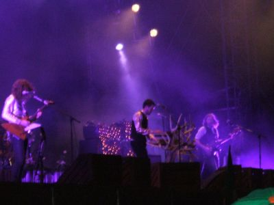 Taken by myself with my digital camera; more than happy to have it used as a visual representation of the festival.